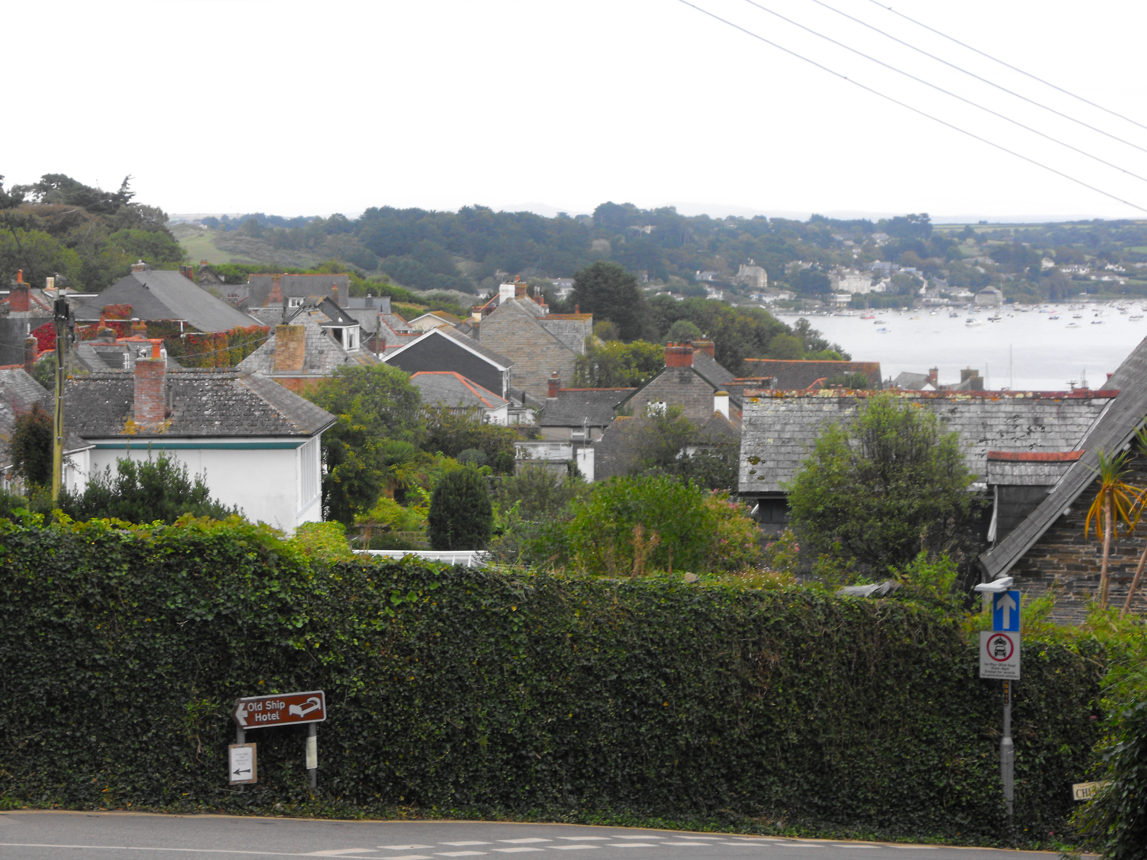 Padstow from the hill